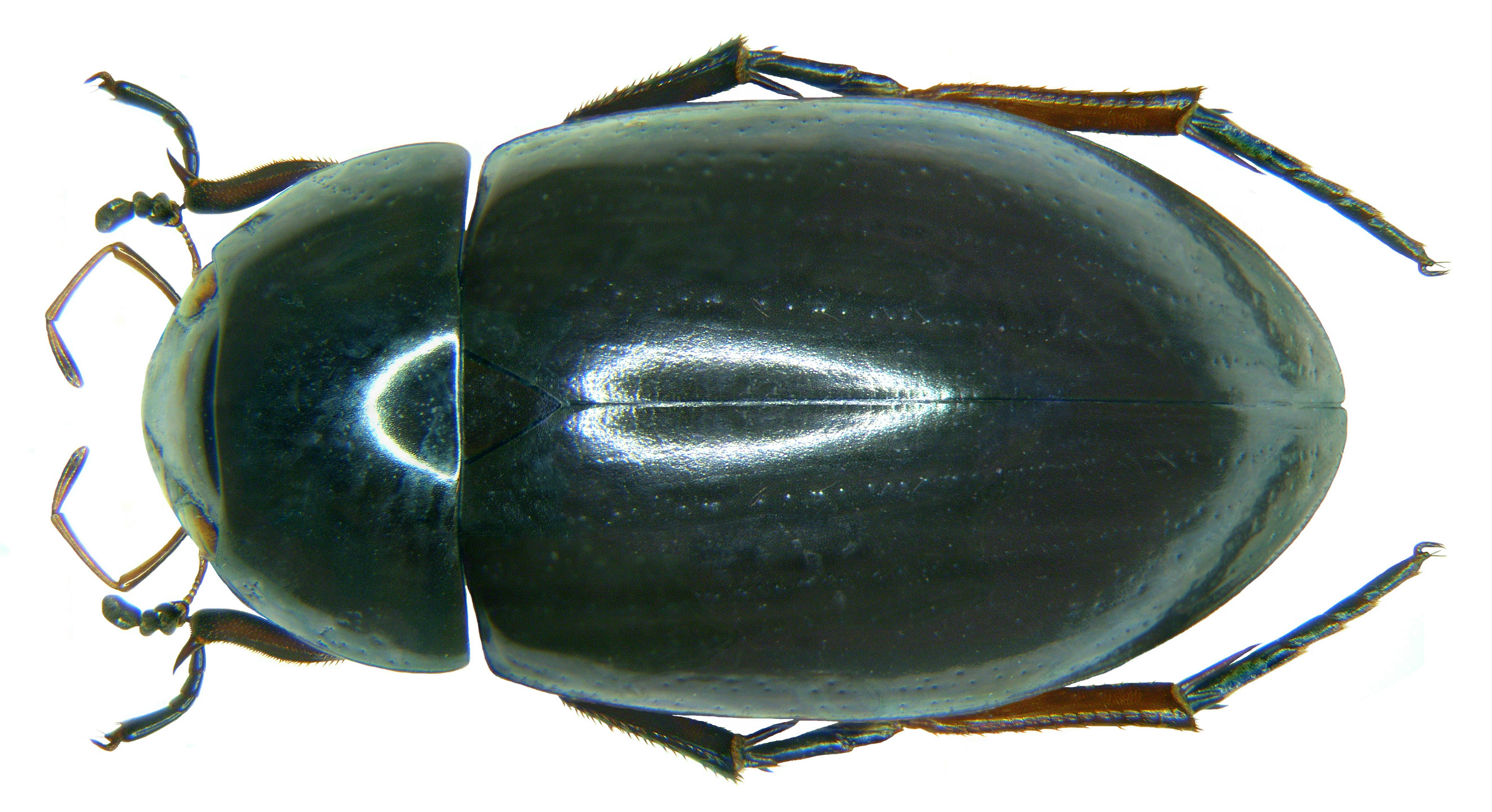 Hydrochara caraboides, a beetle in the family Hydrophilidae Familie: Hydrophilidae Grösse: 14-19 mm Verbreitung: Europa Ökologie: in Tümpeln und Teichen Fundort: Jugoslavien, Montenegro, Skutari-See leg. det. U.Schmidt, 1982 Foto: U.Schmidt, 2008